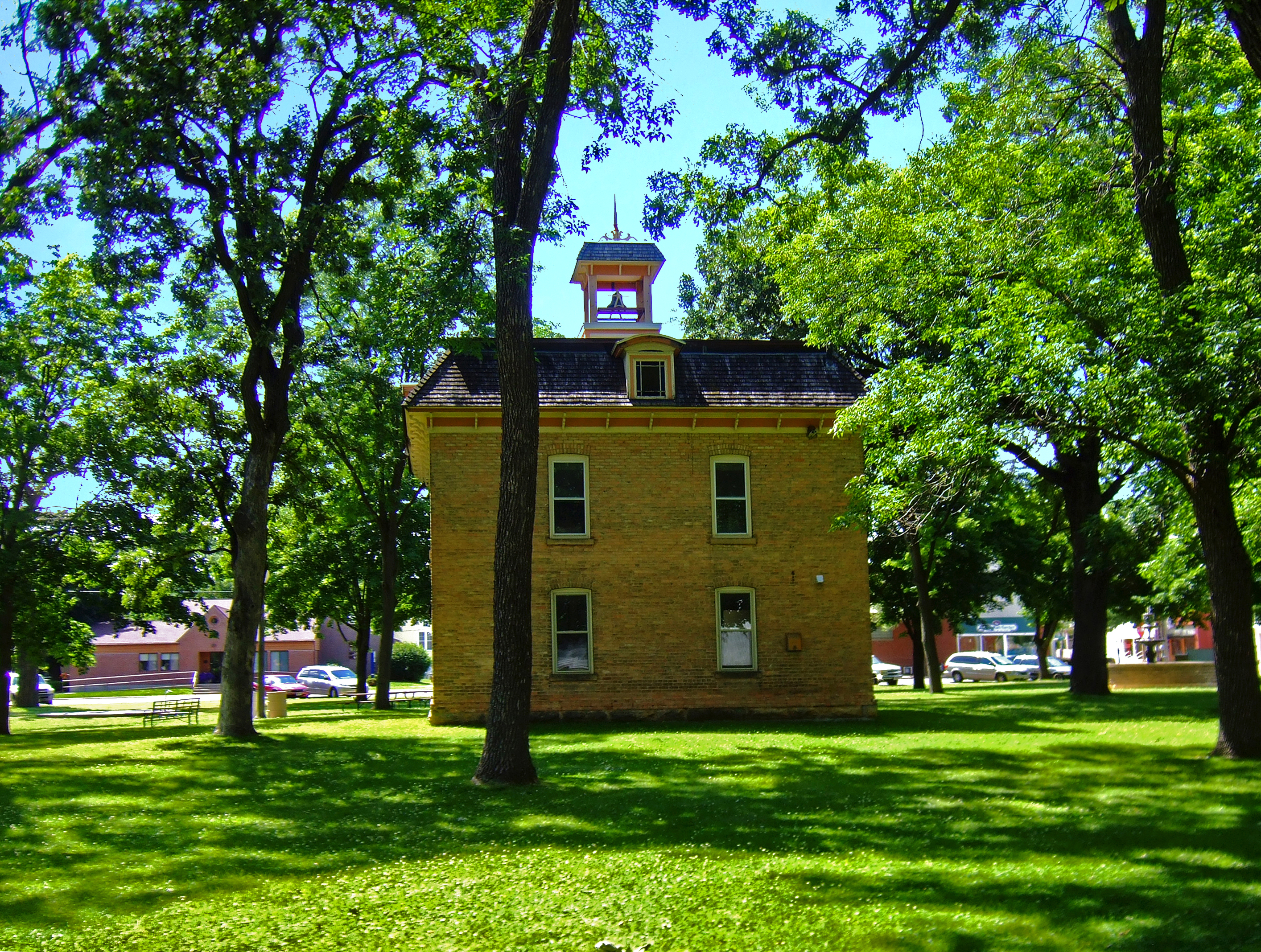 Library Park in Belleville, Wisconsin, with the old Village Hall (1894) in the center, was added to the National Register of Historic Places in 1981.